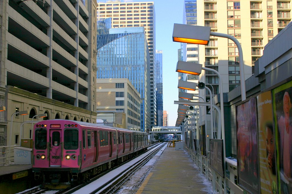 CTA Pink Line train in the State/Lake station. The train is pink to promote the new line.